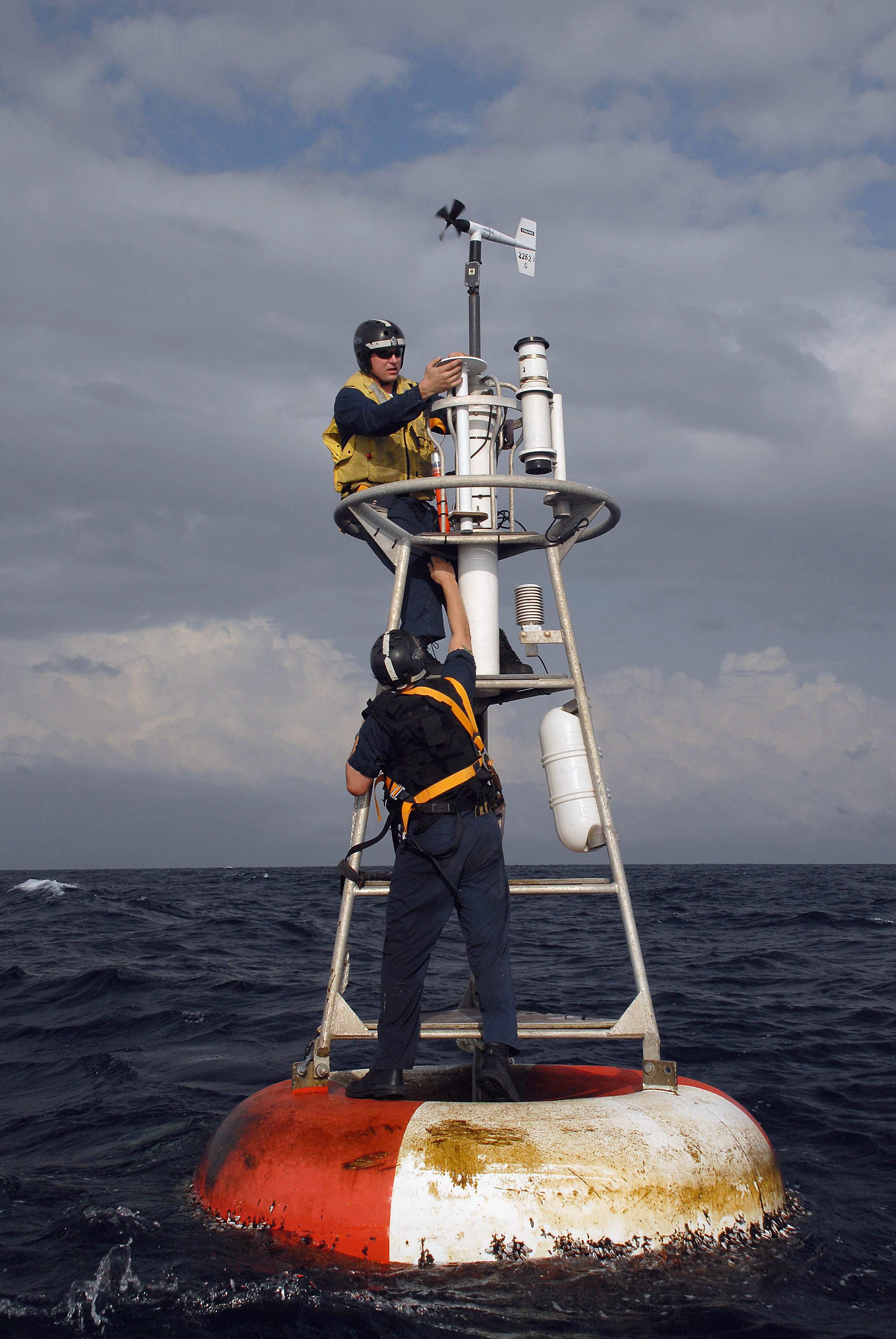 ATLANTIC OCEAN (Jan. 25, 2008) Mineman 2nd Class Matthew Rishovd, left, works with Mineman 2nd Class Kody Egelhoff repair a Pirata bouy for the National Oceanic and Atmospheric Administration. Repairing bouys is part of the Africa Partnership Station's (APS) mission to help the NOAA collect weather data that may help predict hurricanes and other inclement weather. APS is a part of a multi-national effort to bring the latest training and techniques to maritime professionals in nine West African countries and to address the common threats of illegal fishing, smuggling and human trafficking. In addition to maritime training, APS will perform more than 20 humanitarian projects in the region. U.S. Navy photo by Mass Communication Specialist 2nd Class Elizabeth Merriam (Released)